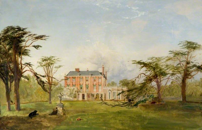 Painting of Champion Lodge